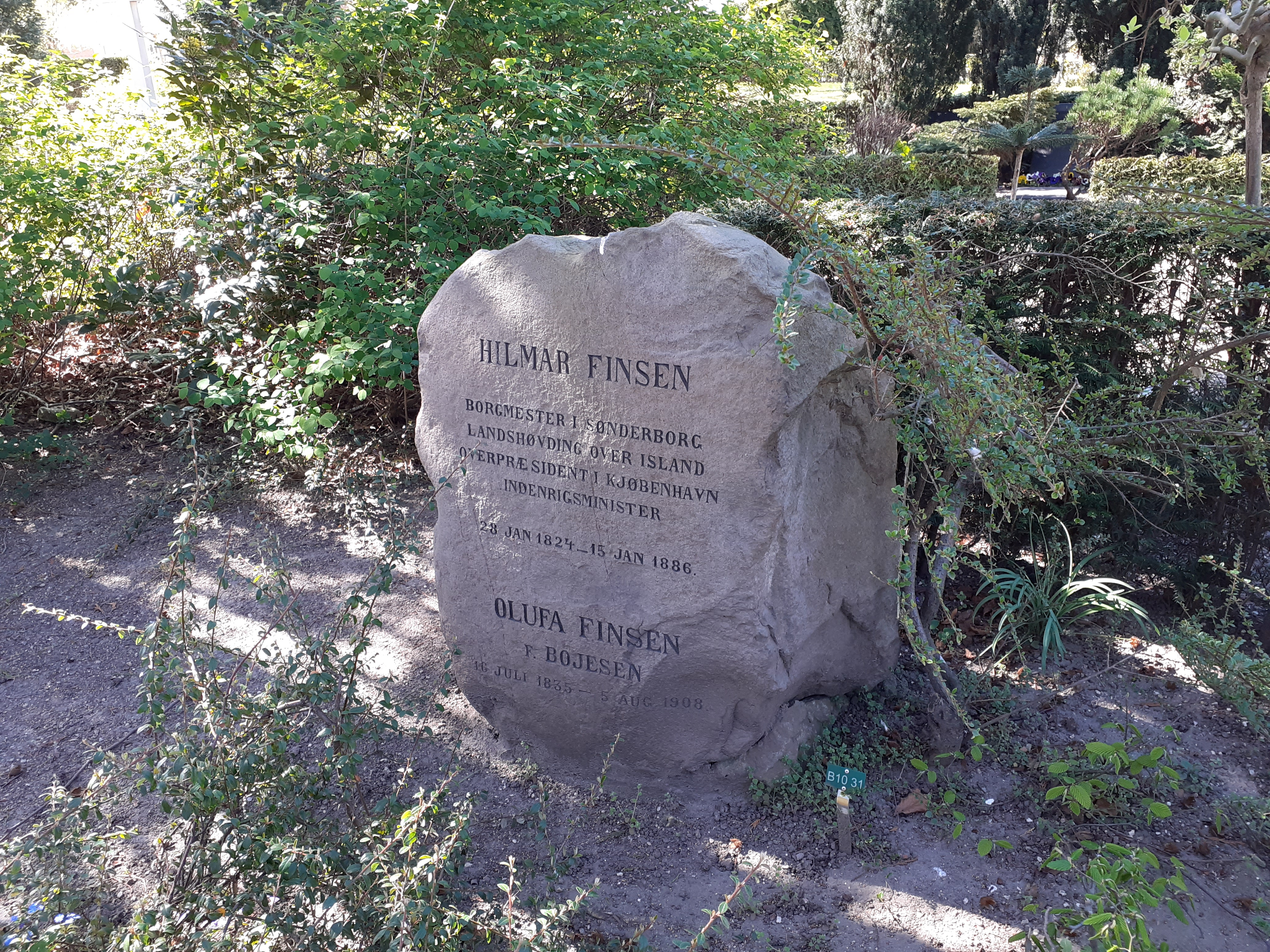 The grave of the civil servant Hilmar Finsen (1824-1886) at Holmens Kirkegård in Copenhagen. He was mayor of Sønderborg in 1850-1864, leader of Iceland 1873-1883 and minister of internal affairs 1884-1885.